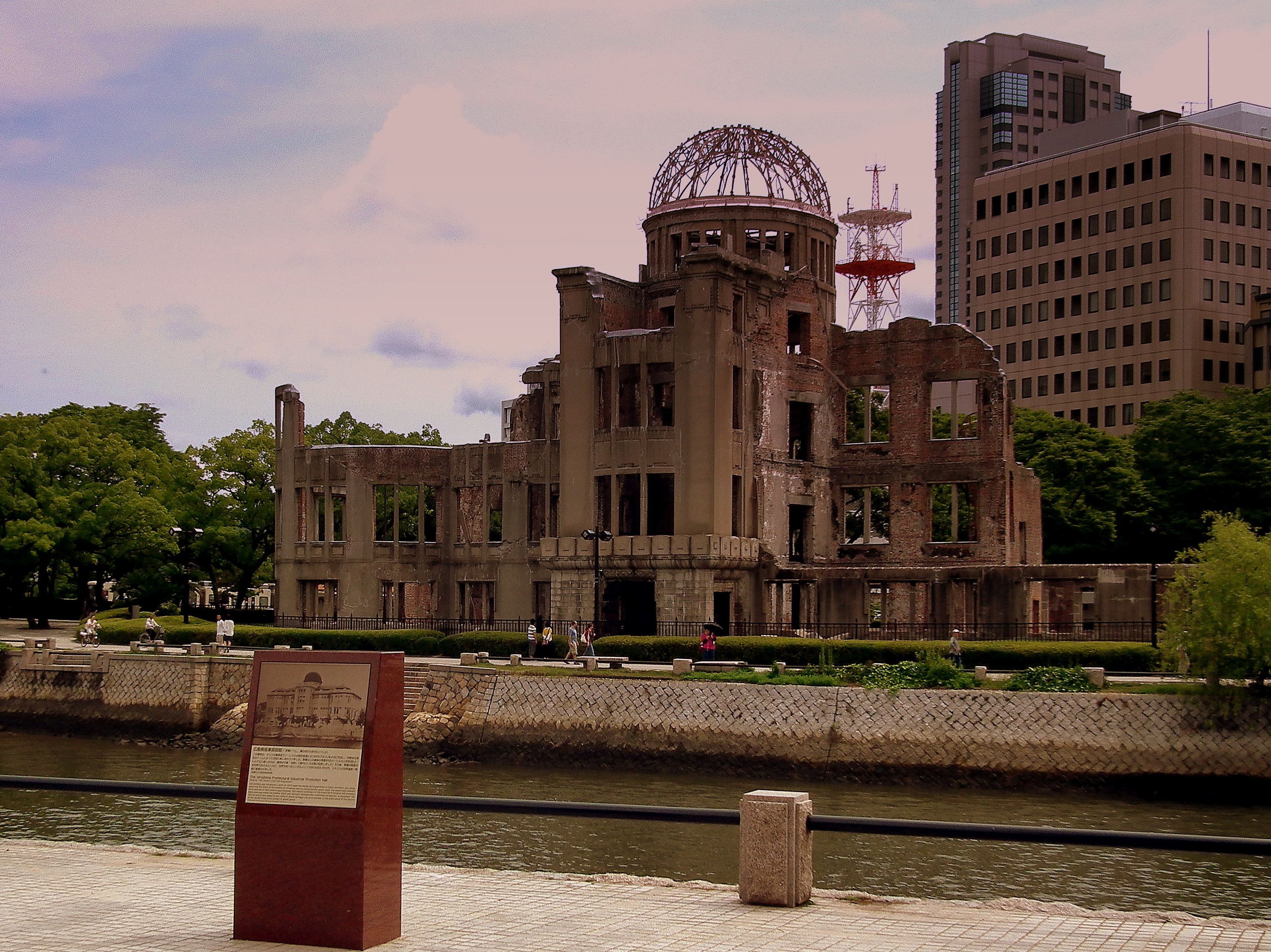 ATOMIC BOMB DOME AT THE HIROSHIMA PEACE PARK JAPAN JUNE 2012